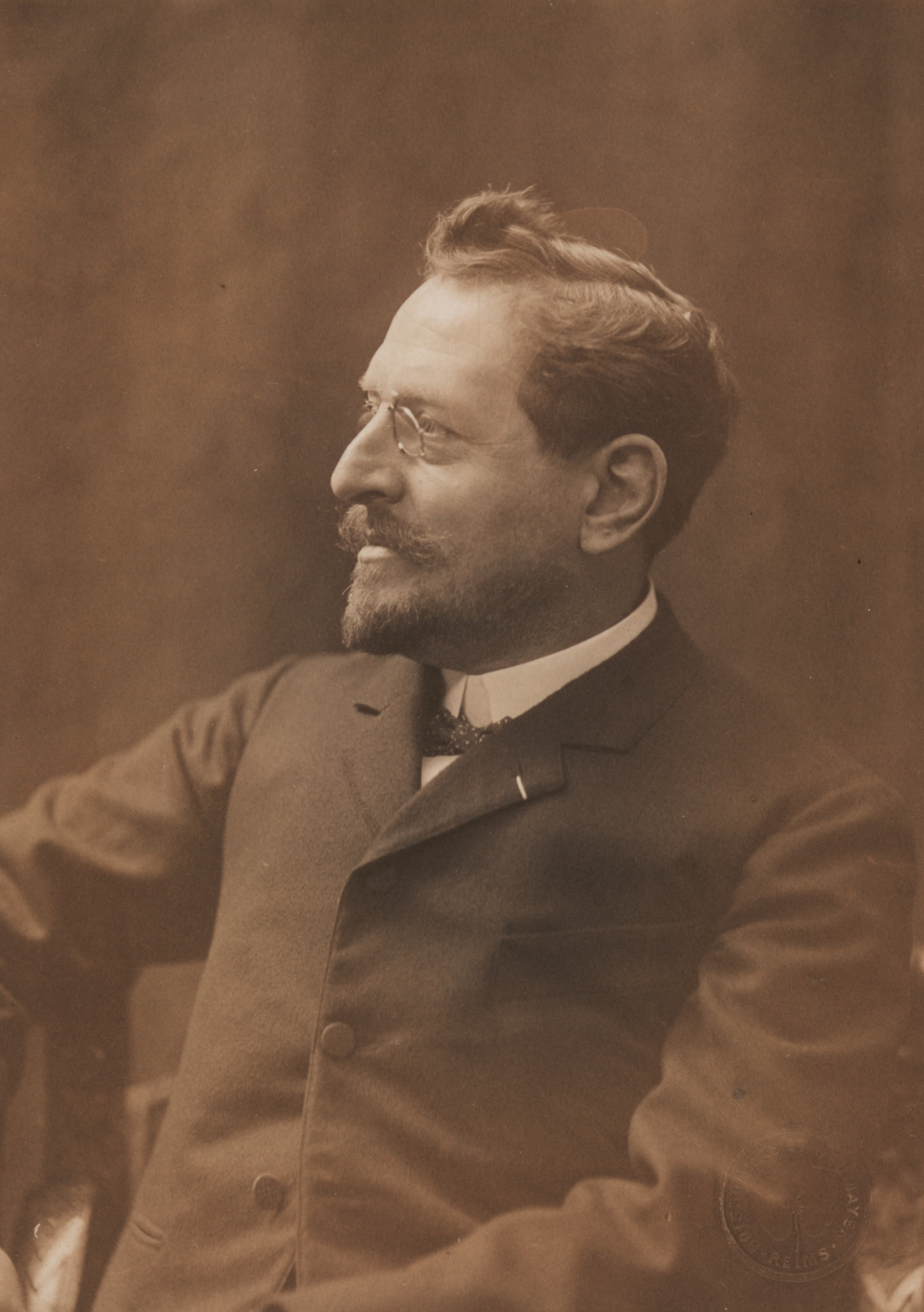 TITLE [ Sergei Mikhailovich Prokudin-Gorskii, bust portrait, seated in chair] / Boissonnas et Neumeyer, Reims [France]. NOTES :Illus. in: Fotograf-liubitel', v. 17, no. 9 (September, 1906). :Photograph has embossed circular stamp, in lower right corner, that shows a clover leaf and reads "Boissonnas et Neumeyer, Reims" :Mounted on paper with printed Russian.